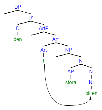 Syntax tree of the Determiner Phrase with Double Determiners adapted from Santelmann. 1993. example (26), made with mshang syntax tree generator.